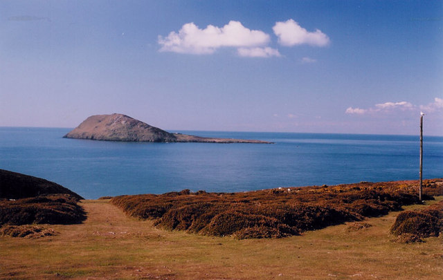 Bardsey Island